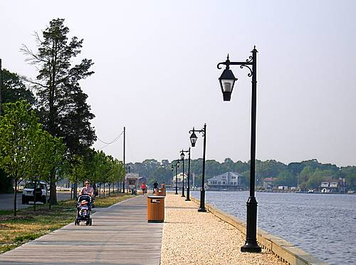 Island Heights Boardwalk on the Toms River